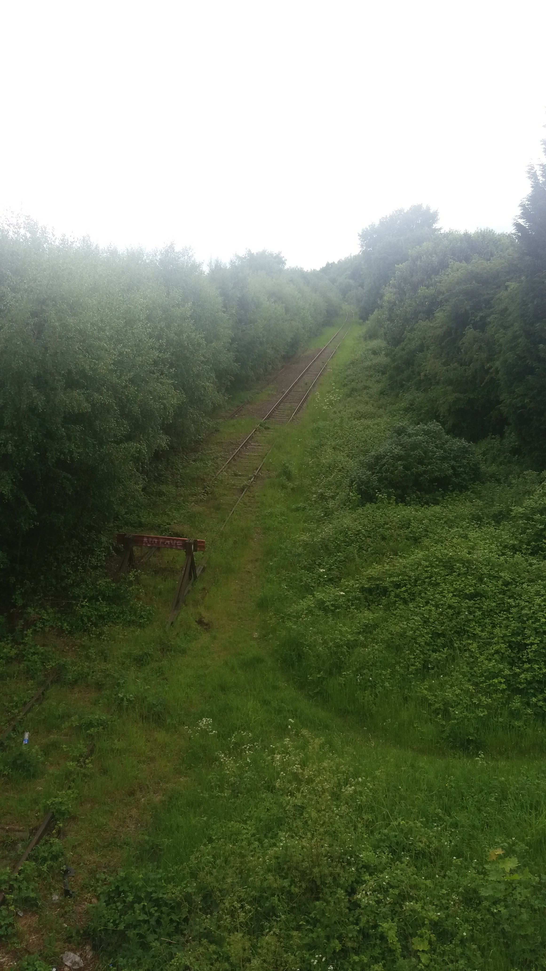 My own.